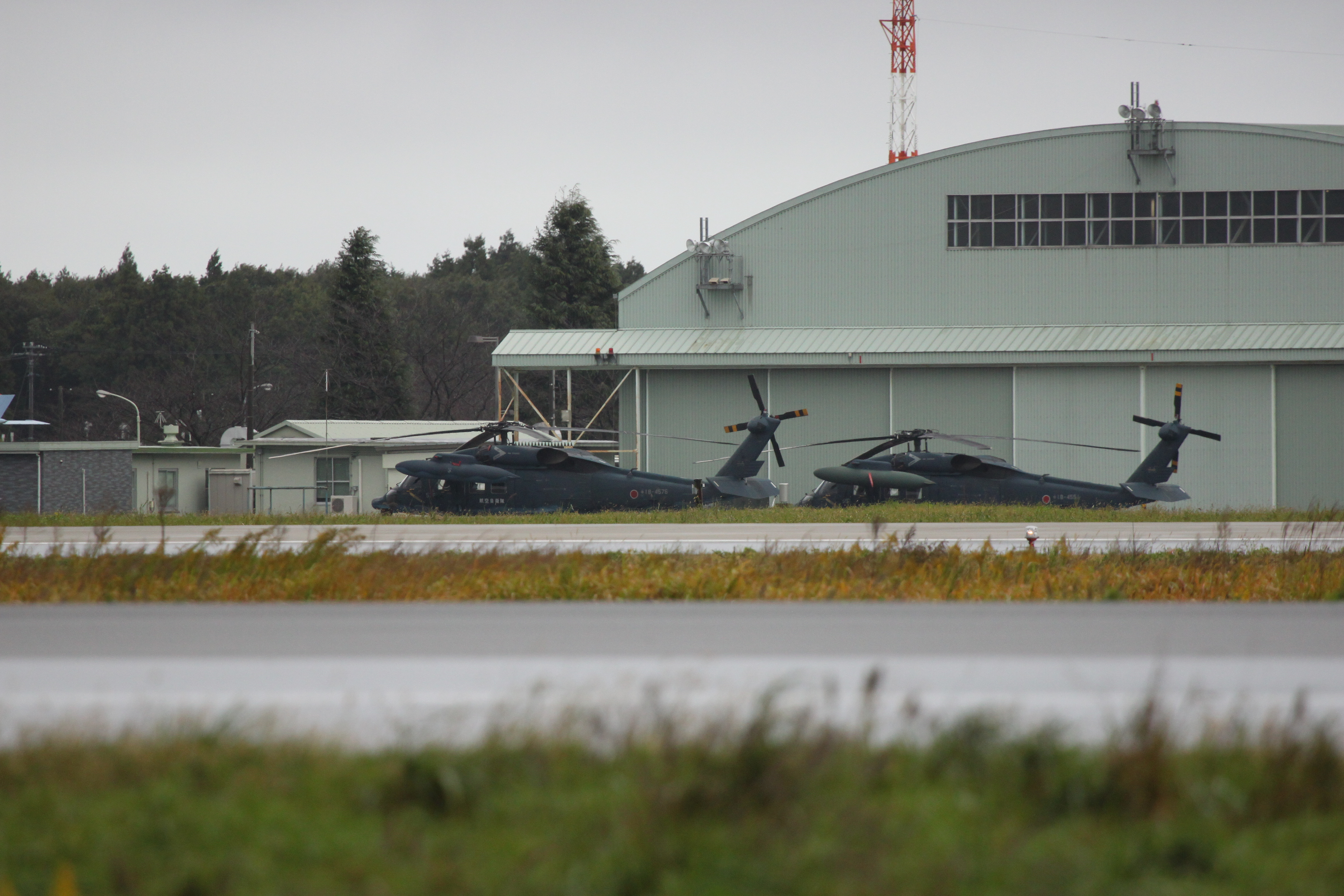 Mitsubishi UH-60 on ground